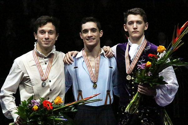 The Men's podium at the 2016 European Championships. From left to right: Oleksii Bychenko (2nd), Javier Fernández (1st), Maxim Kovtun (3rd).